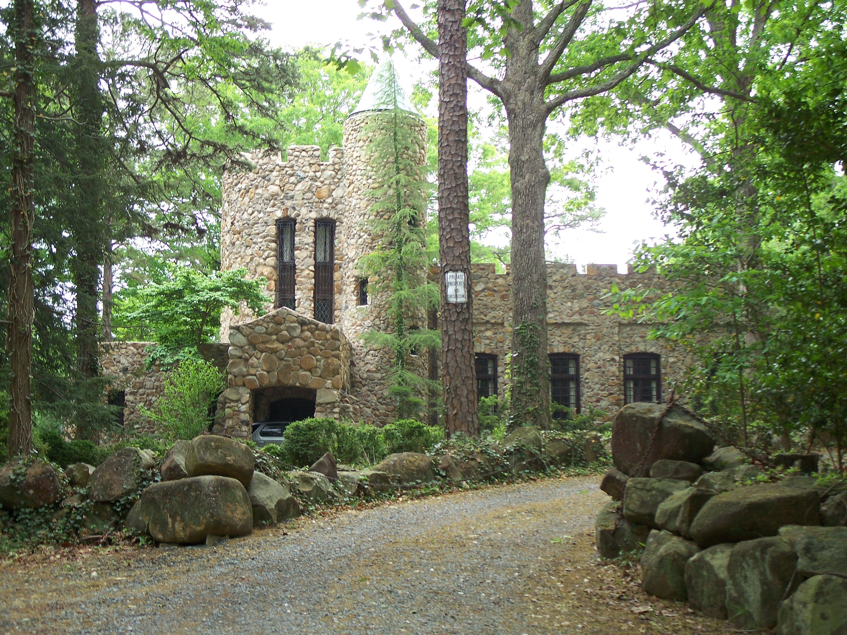 Gimghoul Castle in Chapel Hill, North Carolina, United States. The meeting place for members of the University of North Carolina at Chapel Hill secret society the Order of Gimghoul.